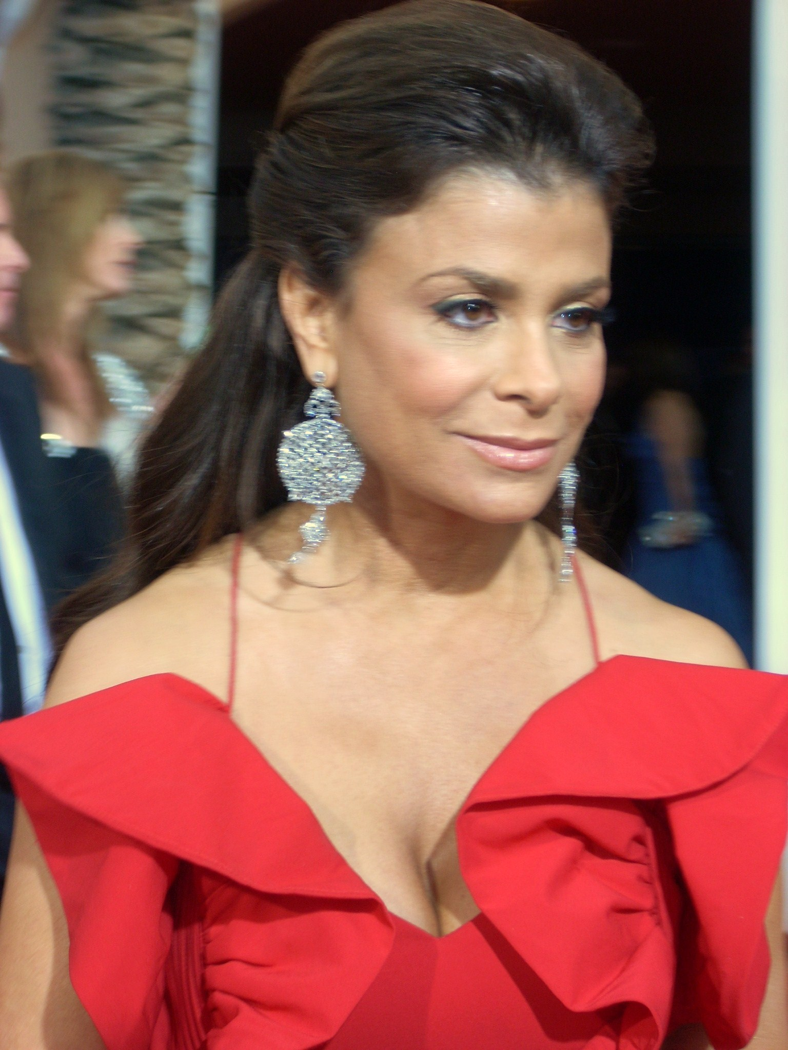 Paula Abdul at the 15th Screen Actors Guild Awards.